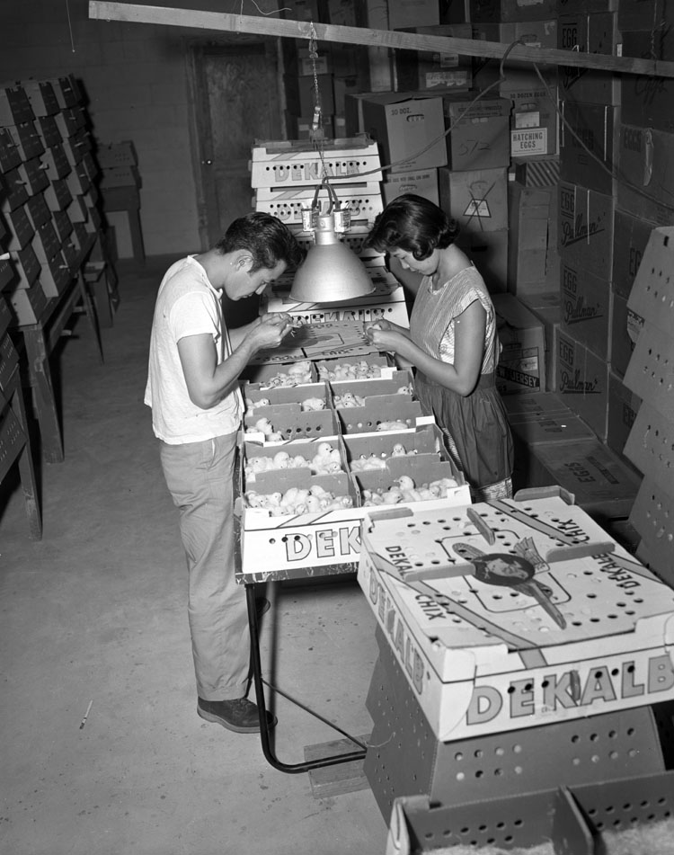 Title: Pocosham Hatcheries Creator: Adolph B. Rice Studio Date: March 7, 1956 Identifier: Rice Collection 955C Format: 1 negative, safety film, 4 x 5 in. Repository: Library of Virginia, Prints and Photographs, 800 E. Broad St., Richmond, VA, 23219, USA, :8881/R